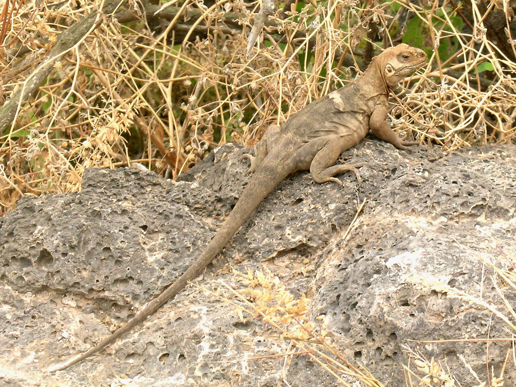 Santa Fe Land Iguana (Conolophus pallidus) on Santa Fe Island, Galapagos